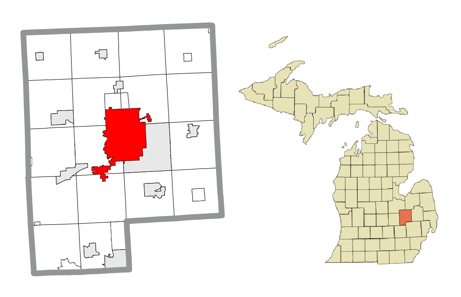 Locator map of Flint, Michigan